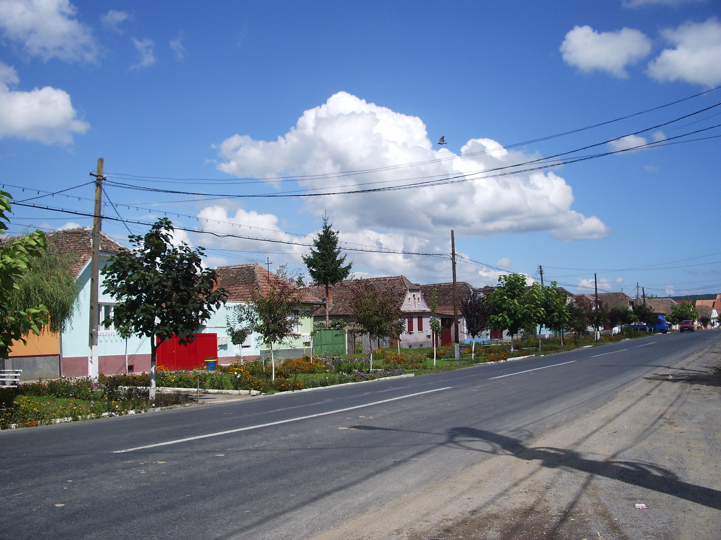 Houses in Daneş, Mureş County, Romania